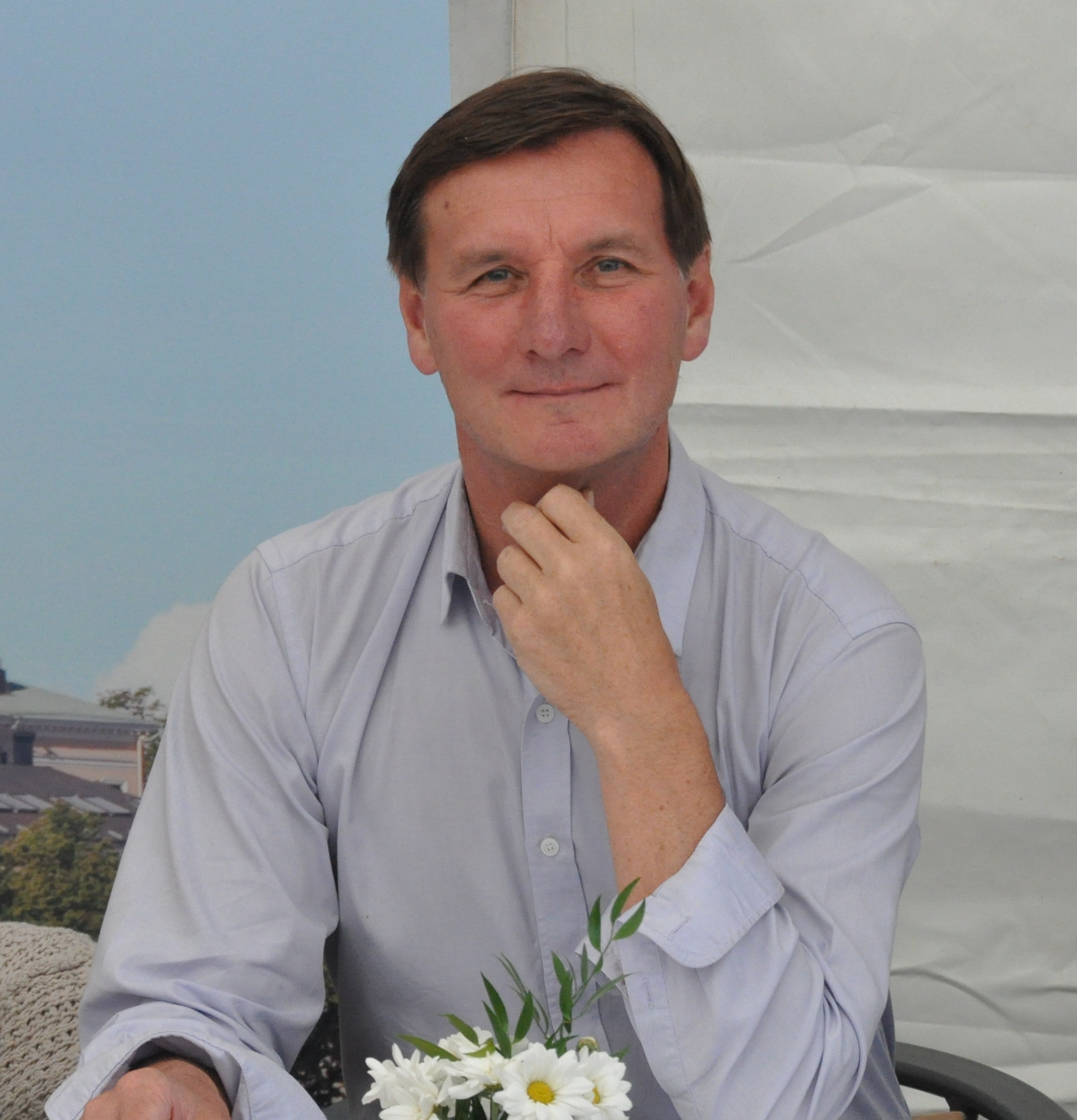 Finnish MP Jukka Gustafsson at the SuomiAreena 2009 event in Pori, Finland.